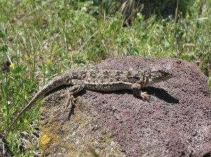 Eremias arguta transcaucasica lizard in vardenis, ARmenia